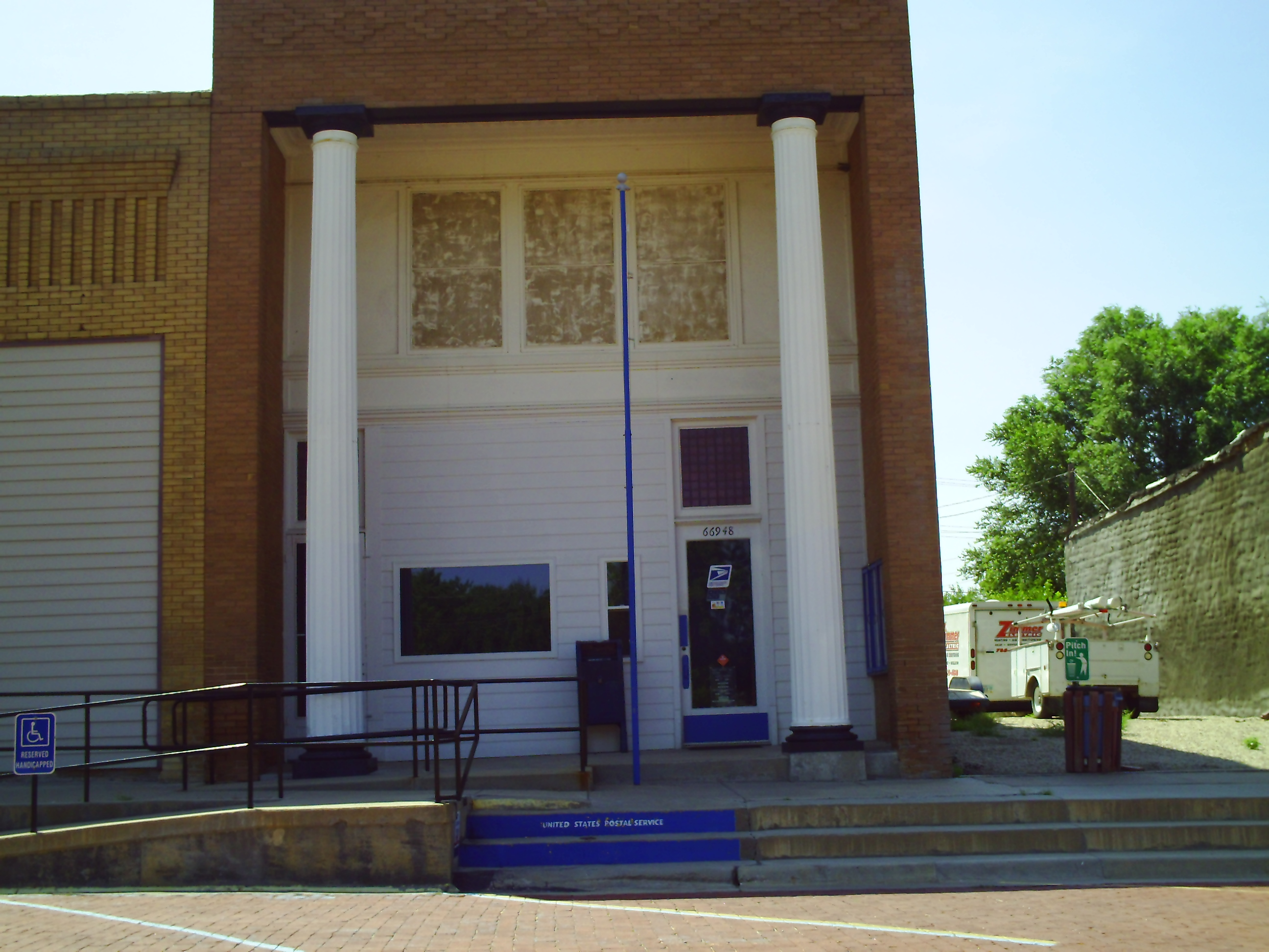 Jamestown, Kansas United States Post Office branch